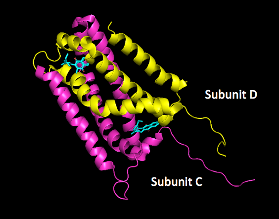 1l0v subunits C and D with menaquinone molecules